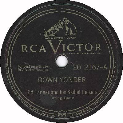 Record of Down Yonder, performed by Gid Tanner's Skillet Lickers